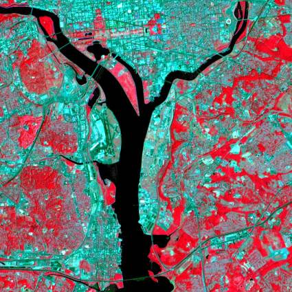 False infrared-colour, pans-sharpened Landsat 7 image of Washington DC (15m Resolution)